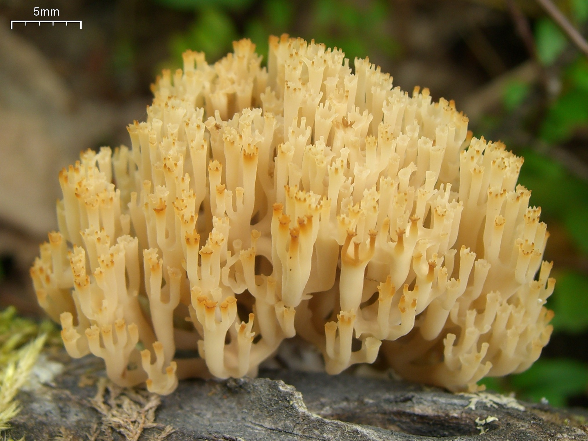 Artomyces pyxidatus (Pers.) Jülich Location: Thompson Region, Wells Gray Provincial Park, British Columbia, Canada Observation Notes: Several tufts growing on birch? log, somewhat rotten, in dry brich-spruce forest (among seas of tasty Vaccinium membranceum). Spore print white. Flesh rather soft and fragile. For more information about this, see the observation page at Mushroom Observer.